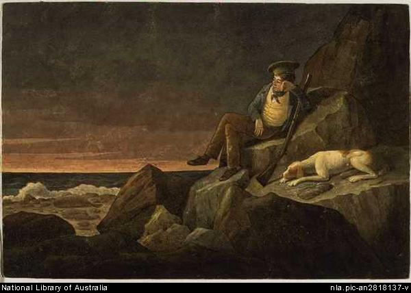 Augustus Earle, Solitude, watching the horizon at sun set, in the hopes of seeing a vessel, Tristan de Acunha (i.e. da Cunha) in the South Atlantic, 1824: 1 watercolour ; 17.5 x 25.7 cm